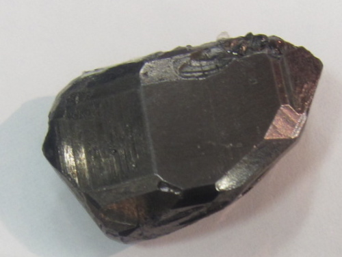 Wittichenite Locality: Cattlegrid pit (Cattlegrid mine), Mount Gunson, Stuart Shelf area, Andamooka Ranges - Lake Torrens area, South Australia, Australia Original description: A wittichenite crystal about 35mm long, in the Smithsonian Museum.